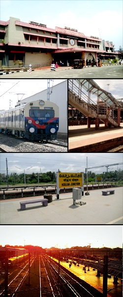 A mix of Kollam Railway Station's pictures